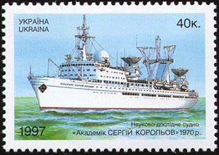 Stamp of Ukraine